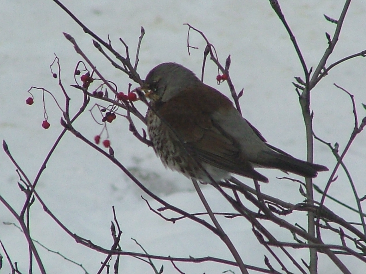 Fieldfare (Turdus pilaris). (Gdansk/Poland)